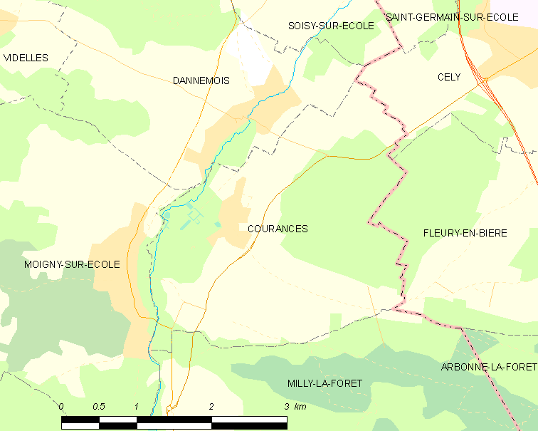 Map of French municipality Courances